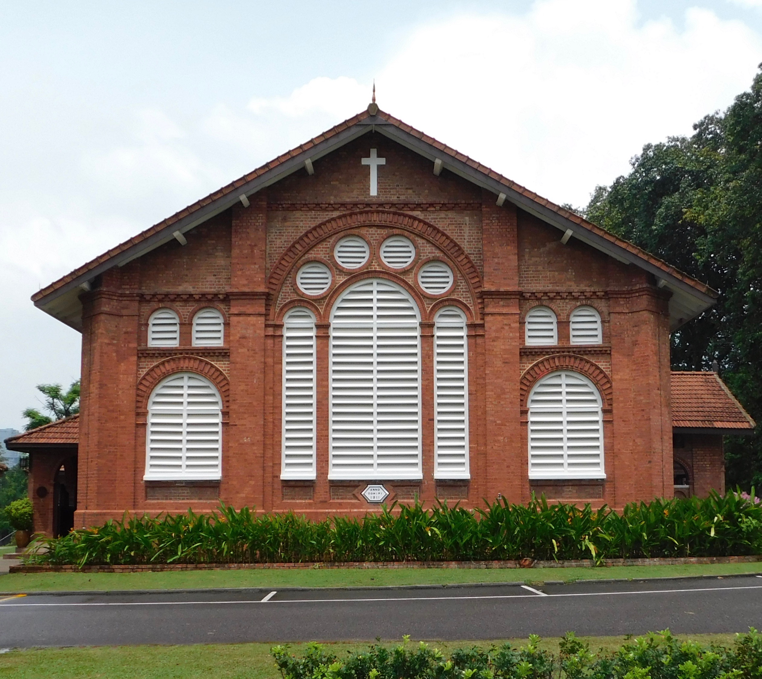 Saint George’s Church, Singapore is an Anglican church based in Singapore. It is located at 44 Minden Road in the Tanglin Planning Area, off Holland Road.